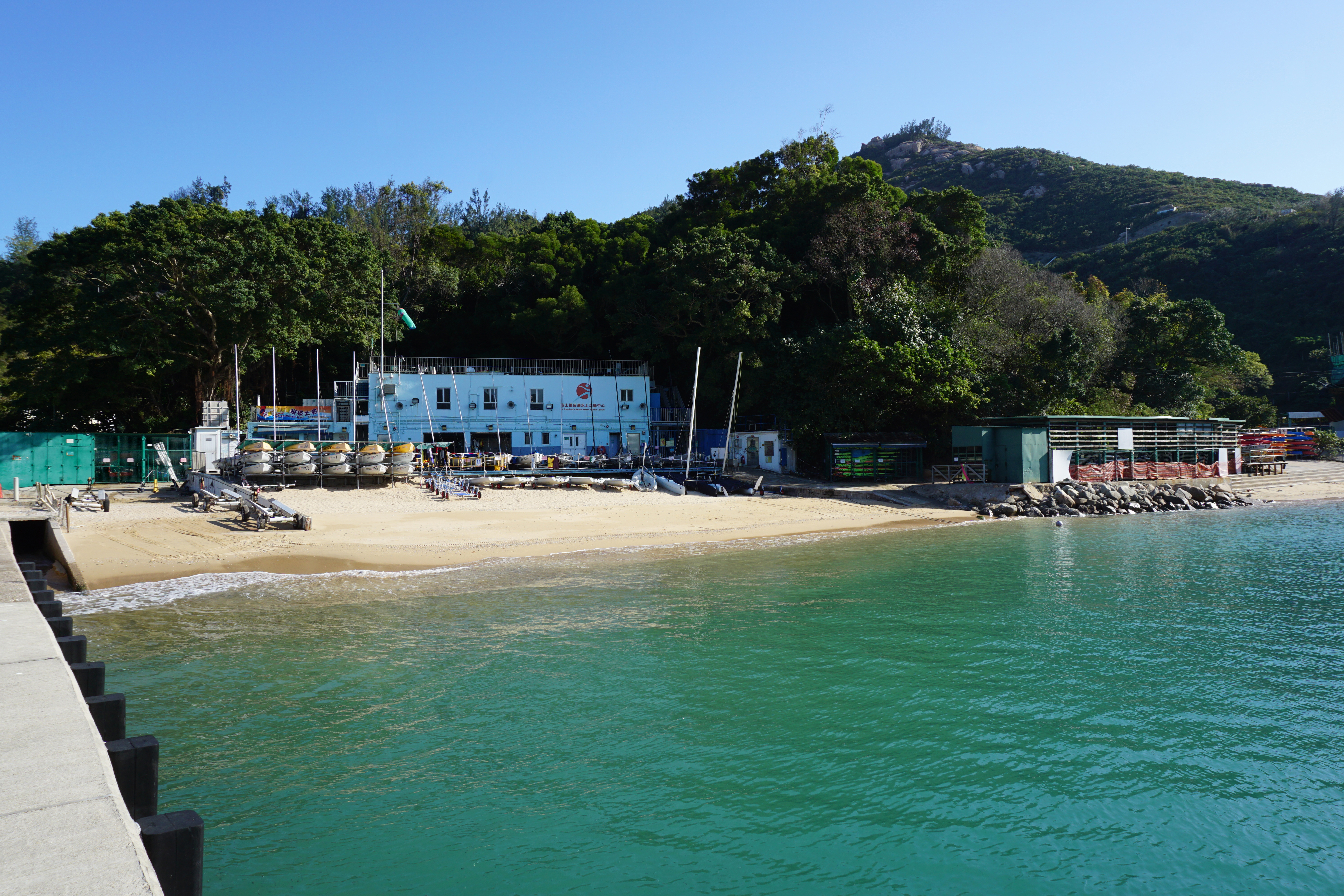 St. Stephen's Beach Water Sports Centre in Stanley, Hong Kong.